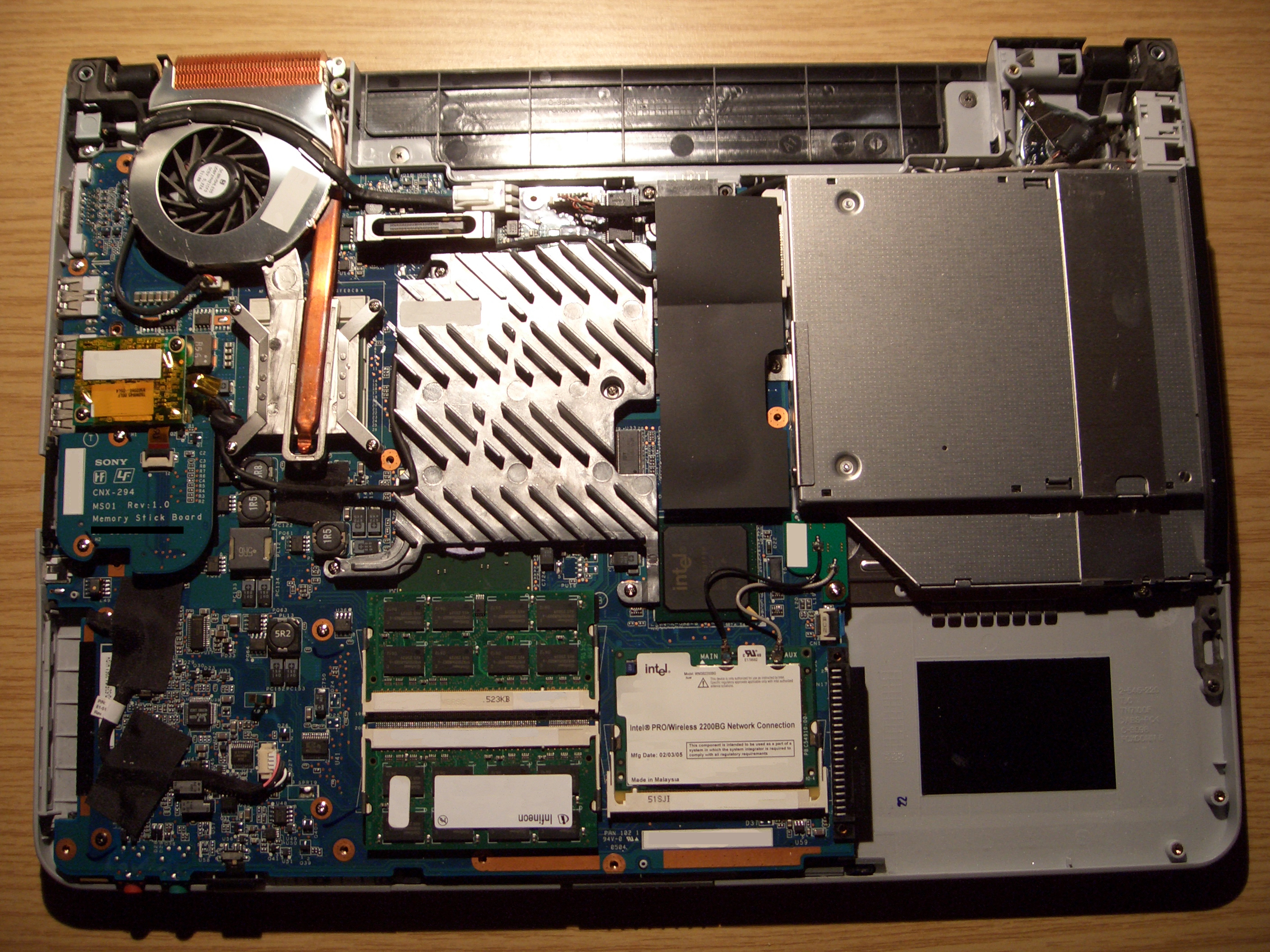 Inner view of a Sony Vaio VGN-FS115M